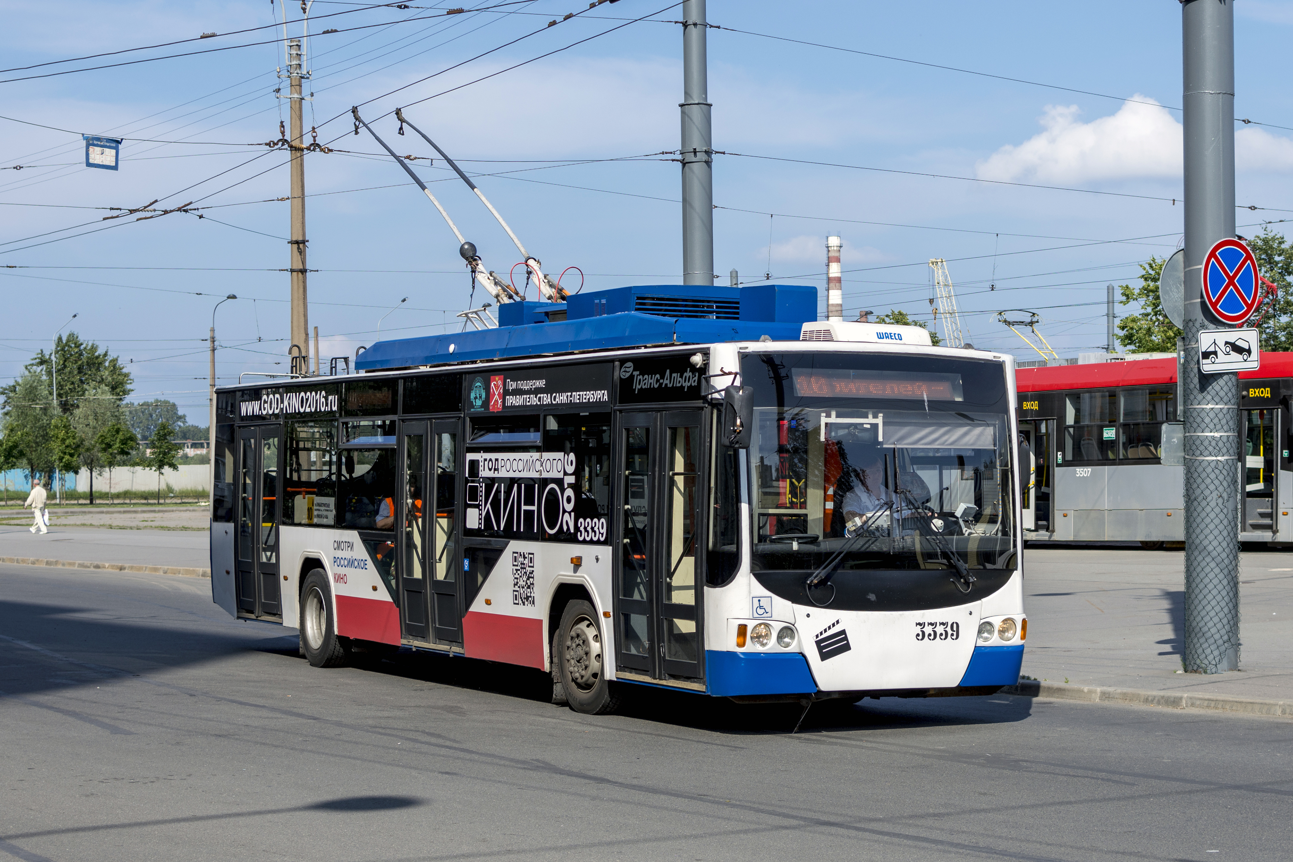 Trolleybus VMZ-5298.01 in Saint Petersburg